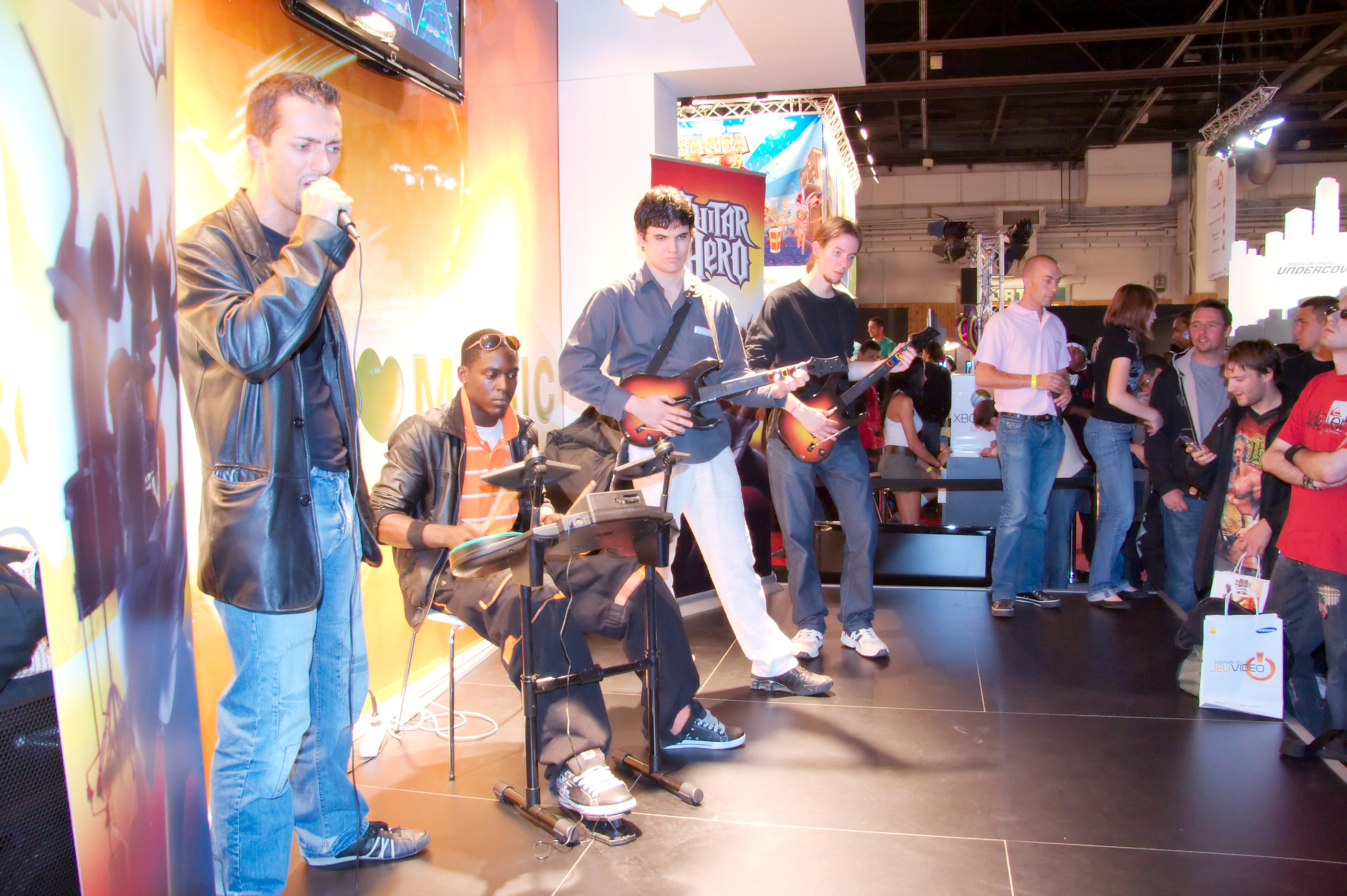 Festival du jeu vidéo 2008 (video game festival) (Paris, France).